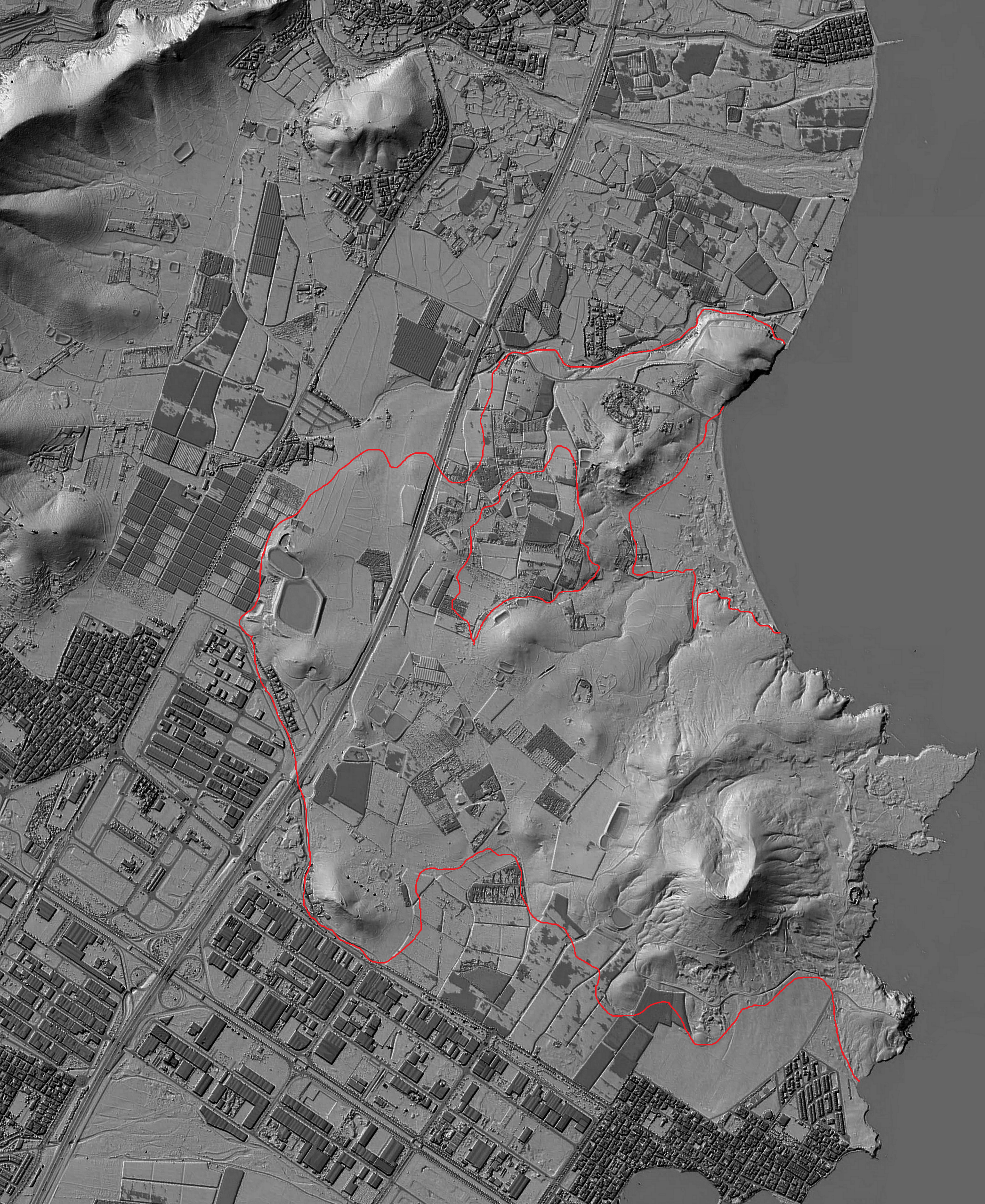 Extensión de el campo volcánico de los Llanos